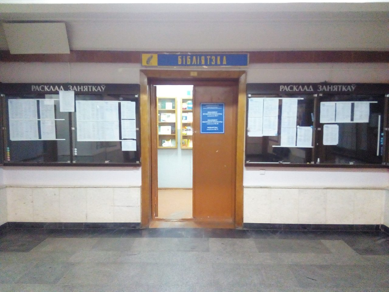 Entrance to the Library of the Faculty of Philology of the Belarusian State University (Minsk; 10th of June, 2019)